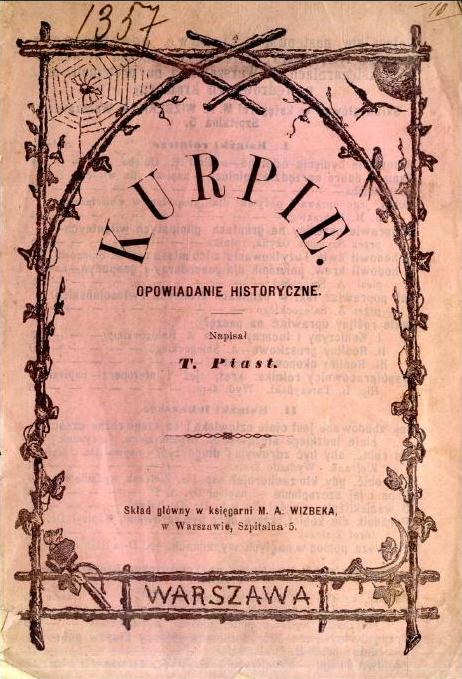 Adam Zakrzewski - "Kurpie: opowiadanie historyczne" (1897)